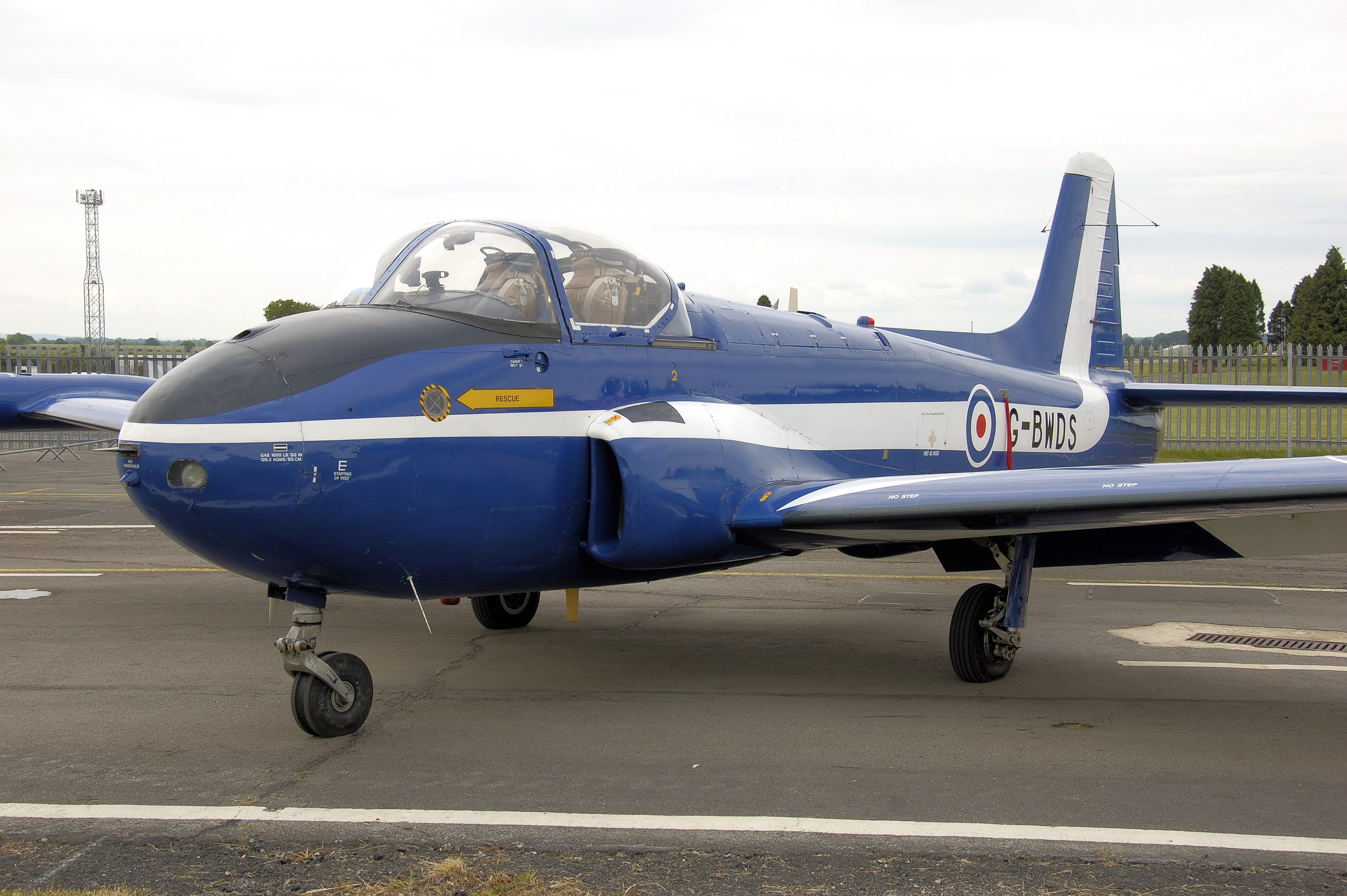 Hunting Percival Jet Provost T3a (RAF registration XM424, now civil registered as G-BWDS) on display at Kemble Air Day 2008, Kemble Airport, Gloucestershire, England. Built in Luton (England), delivered to the RAF in 1960, retired from the RAF 1993.